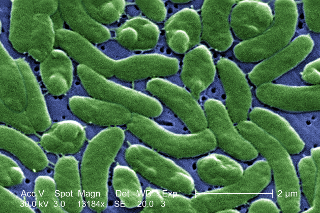 False color scanning electron micrograph of Vibrio vulnificus bacteria (this image was copied from en; see history below))